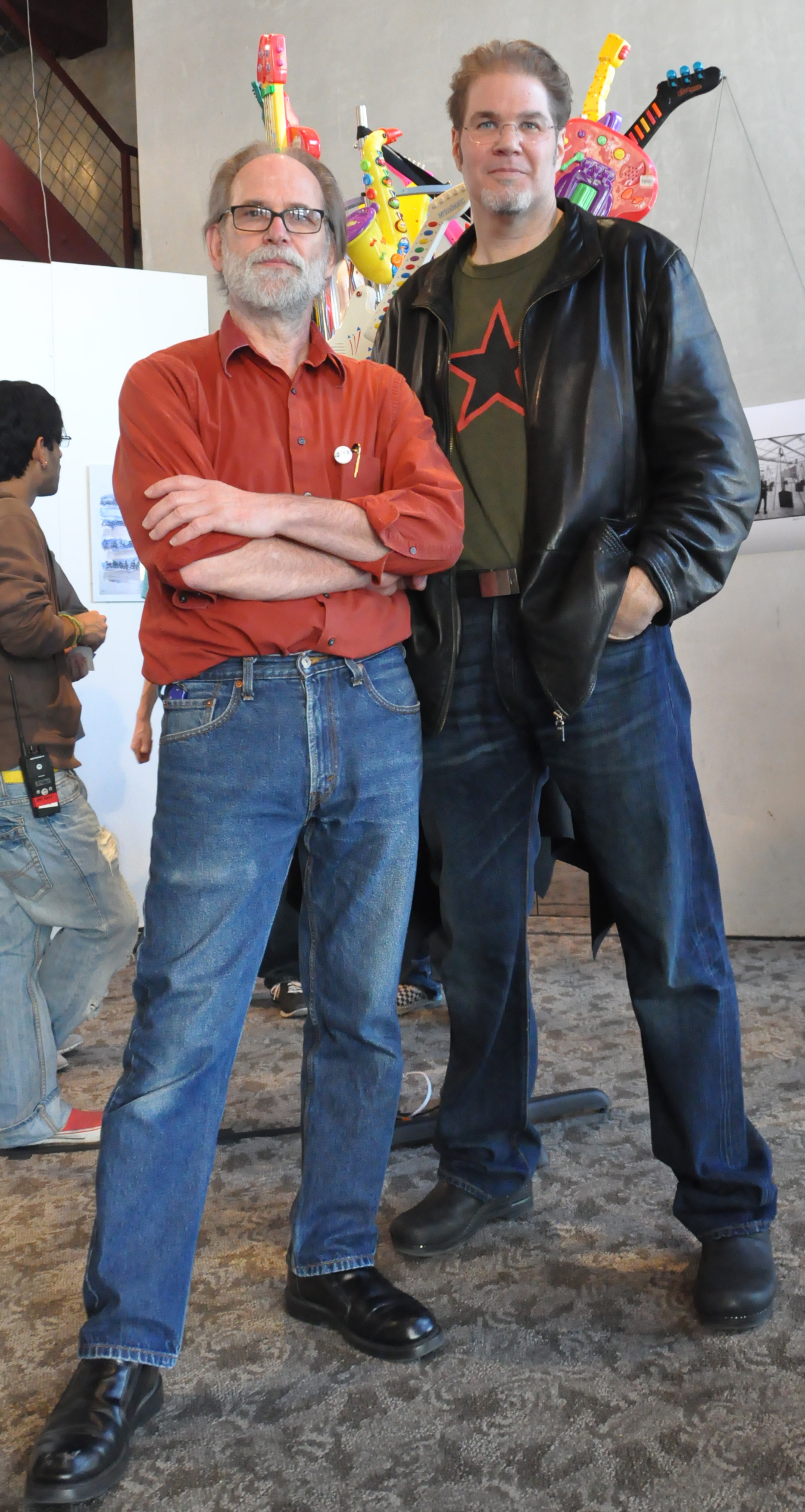 Trimpin, a Seattle-based kinetic sculptor, sound artist, and composer, poses with filmmaker Peter Esmonde at the gallery at the State Theater in Austin, Texas. Their film, Trimpin, premiered during South by Southwest 2009.